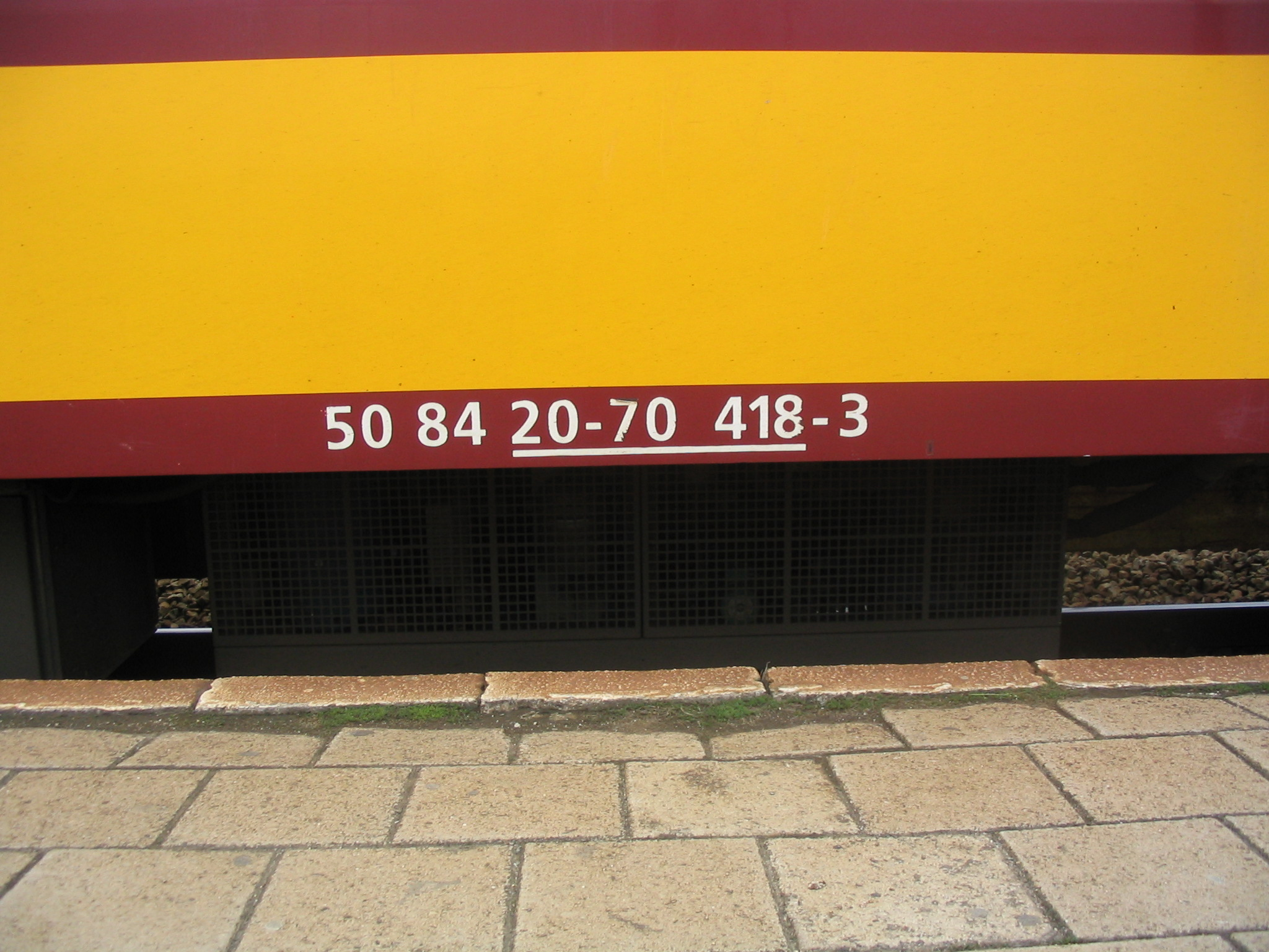 Detail of the UIC number of an NS Benelux ICRm carriage.